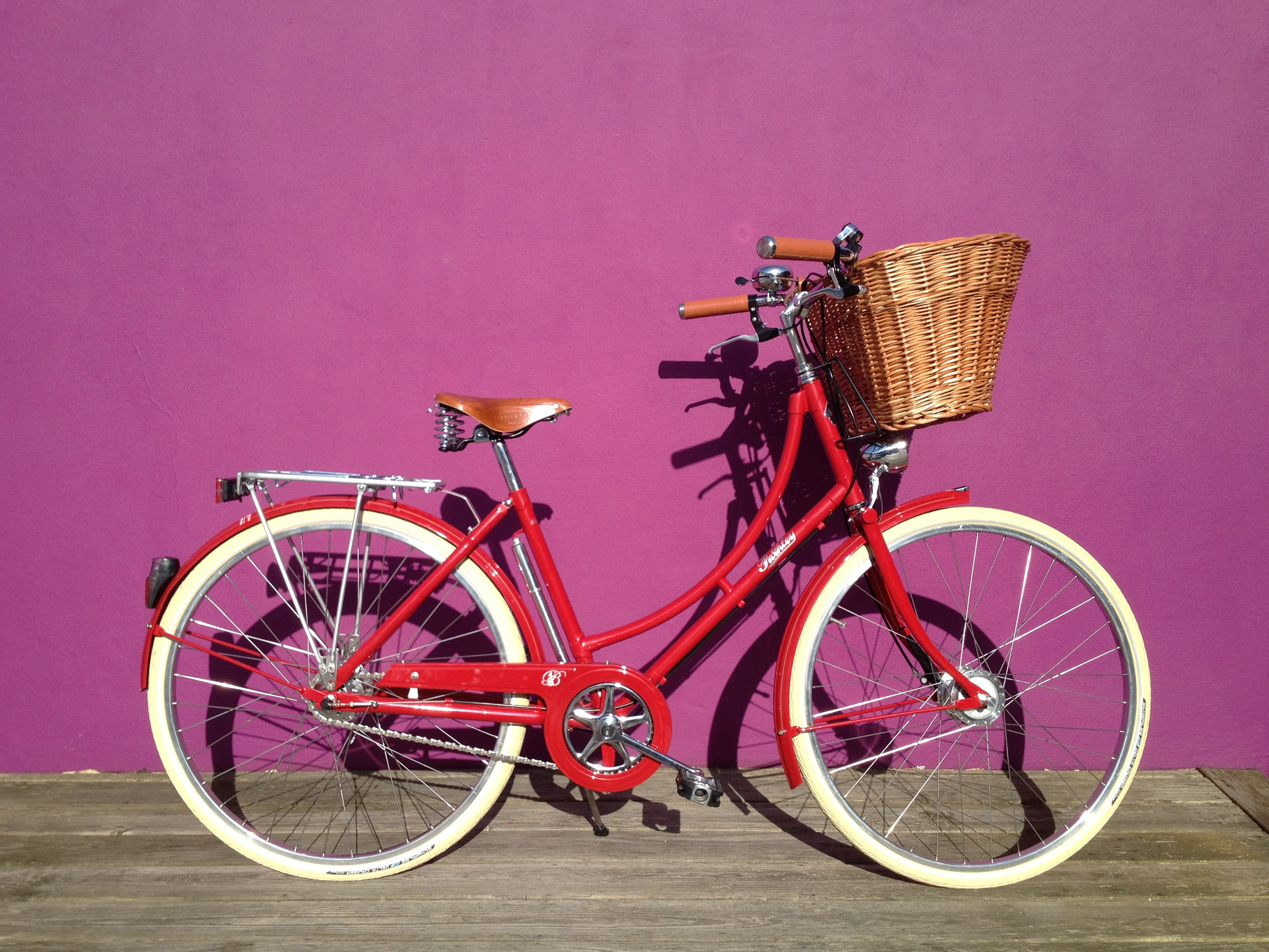 Pashley classic ladies cycles keep on rolling, now with cream tyres